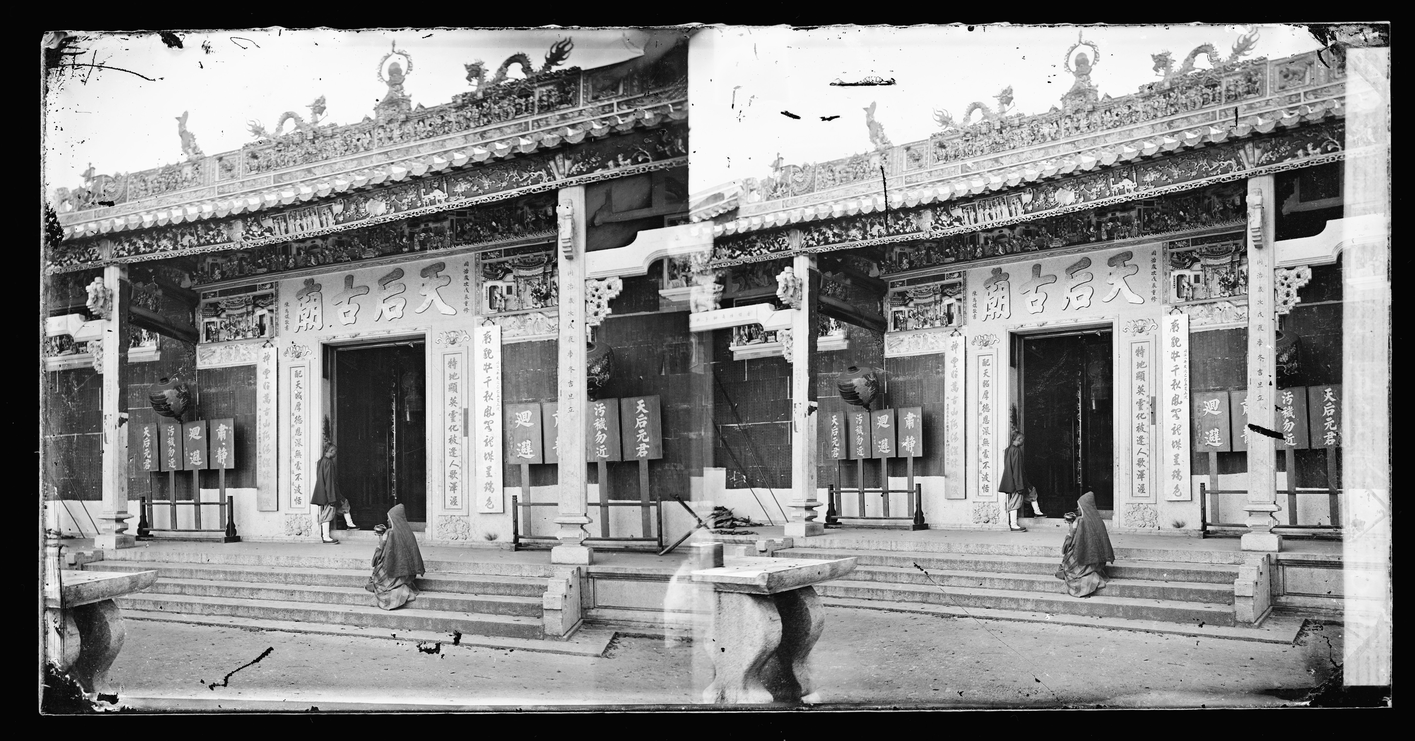 Buddhist temple, Hong Kong. Photograph by John Thomson, 1868/1871. Tin Hau temple in Causeway Bay. A worshipper [?] entering, a monk [?] sitting on the steps. Iconographic Collections Keywords: J. Thomson